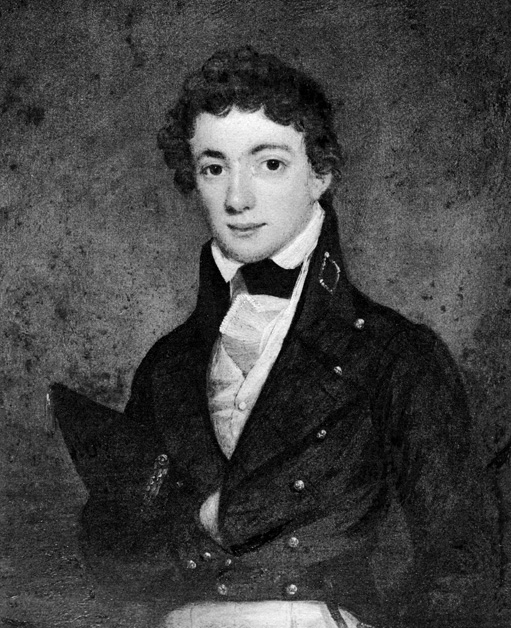 Samuel Francis du Pont (1803 - 1865), U.S. naval officer. Black and white photograph of early portrait depicting him as a midshipman. Artist unknown, likely painted c. 1815-1820.